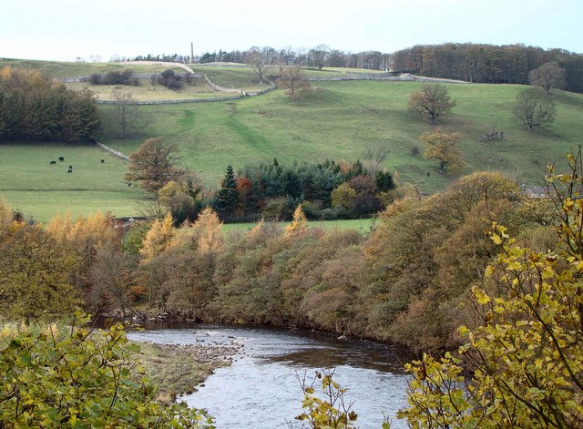 Autumn Colours in Swaledale From the banks of the River Swale near Downholme, Hutton's Monument can be seen on the hill opposite. The monument is 60 feet high and was erected over the remains of Matthew Hutton, Esq., formerly a captain in the army, who died at Macclesfield in 1814.